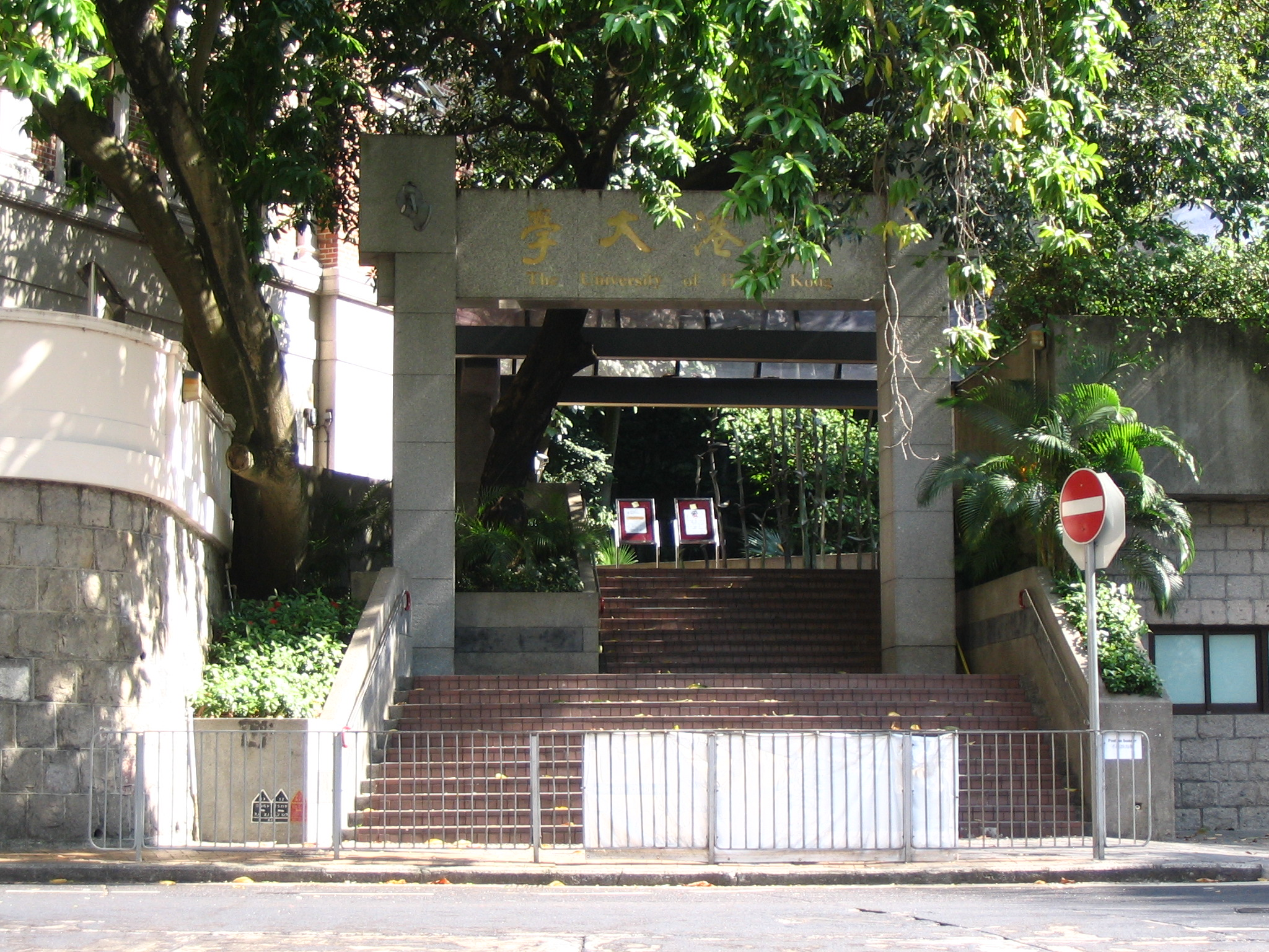 Photo of Bonham Road Entrance (East Gate) of The University of Hong Kong